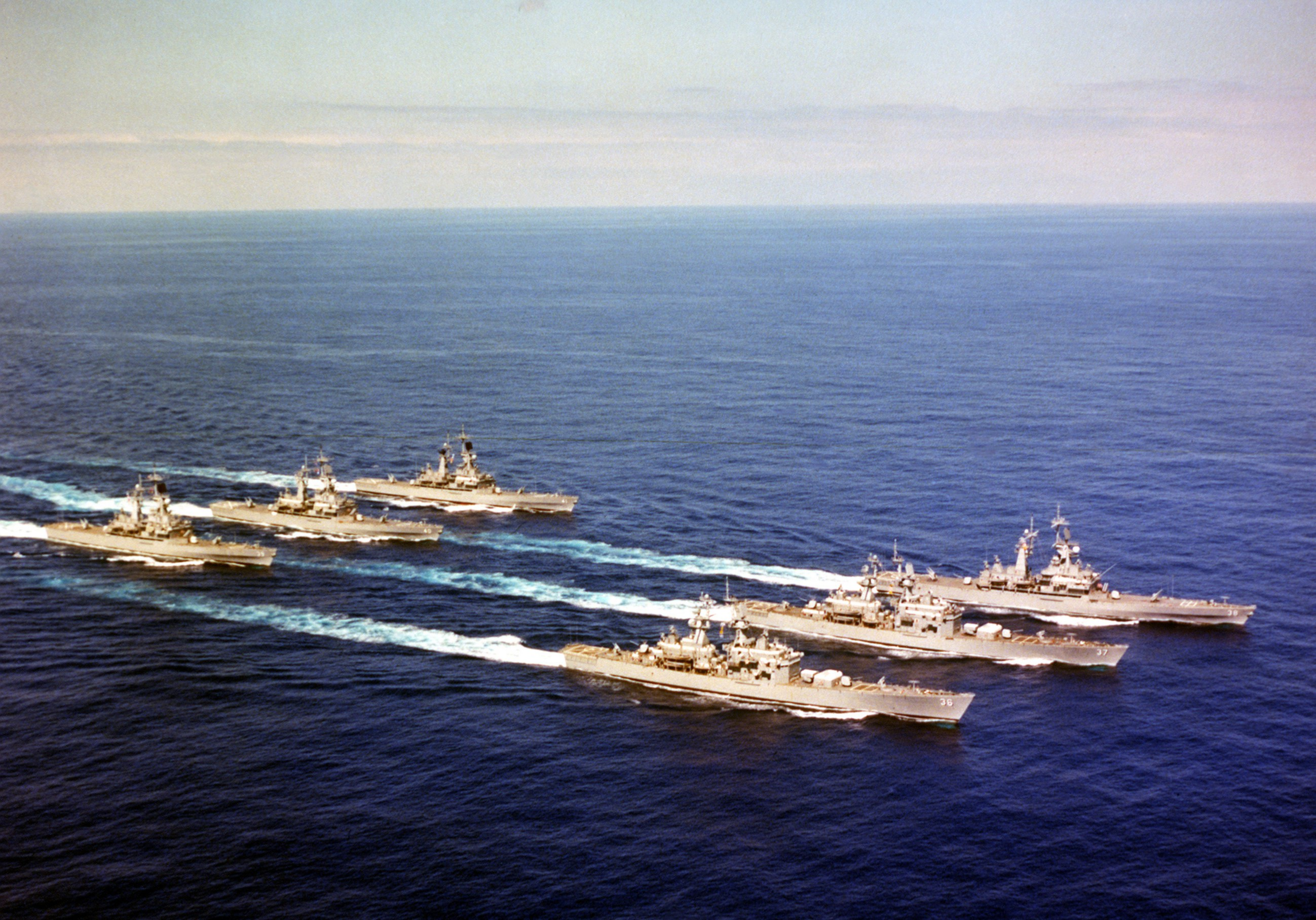 Aerial view of six nuclear-powered U.S. Navy guided missile cruisers underway in formation during exercise "READEX 1-81". The ships are, from left to right, front row: USS California (CGN-36), USS South Carolina (CGN-37), USS Virginia (CGN-38); second row, USS Texas (CGN-39), USS Mississippi (CGN-40) and USS Arkansas (CGN-41).